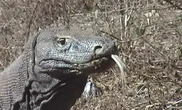 Image extracted from video of Komodo dragon, Varanus komodoensis charging us at the Komodo (island)